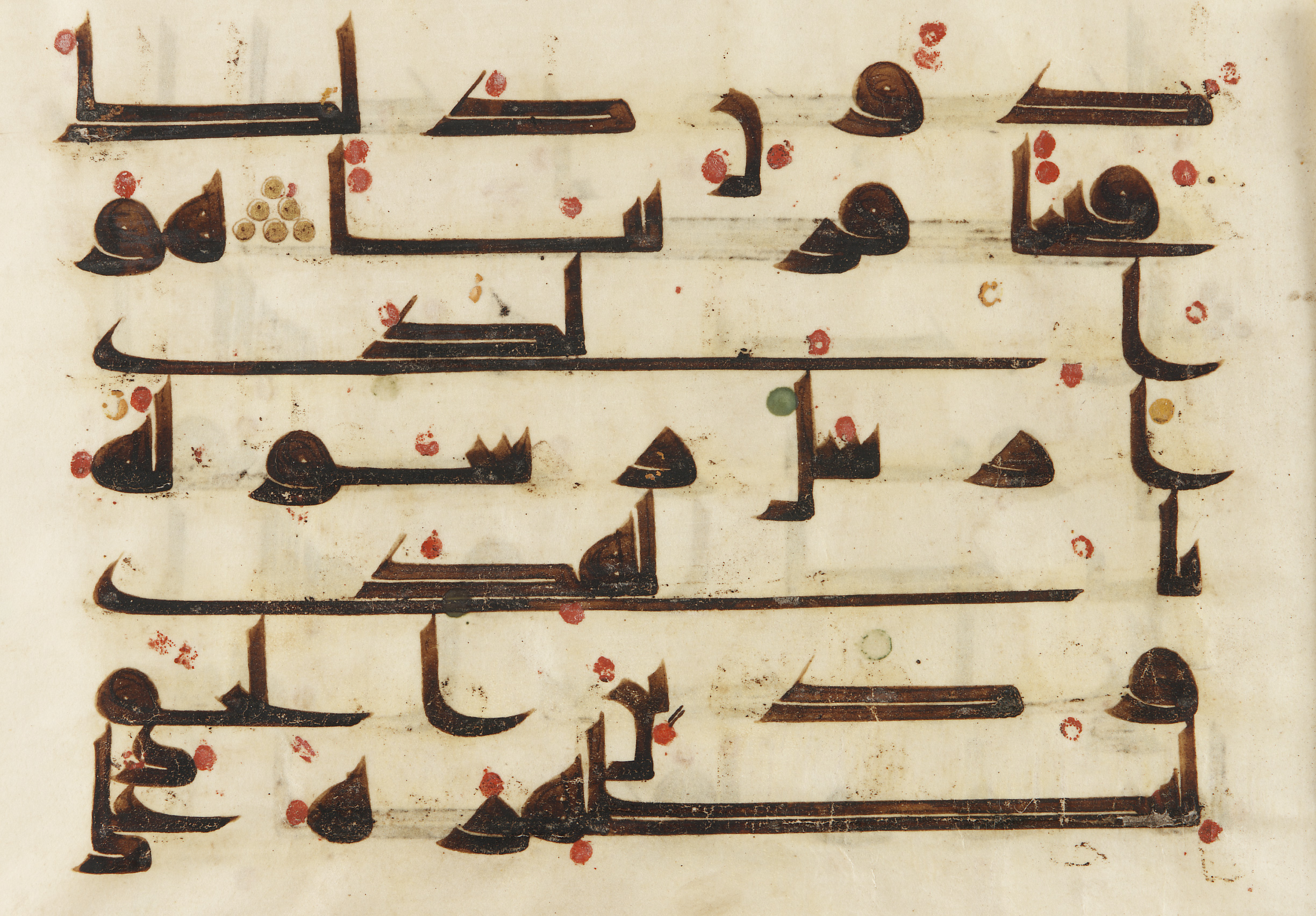 Folio from a Koran, Abbasid dynasty, Near East or North Africa. Ink and color on parchment, 23.9 × 33.3 cm. Part of Al-Fath Sura (48) verses:27-8. مِنْ دُونِ ذَلِكَ فَتْحًا قَرِيبًا * هُوَ الَّذِي أَرْسَلَ رَسُولَهُ بِالْهُدَى وَدِينِ الْحَقِّ لِيُظْهِرَهُ عَلَى and hath given you a near victory beforehand. He it is Who hath sent His messenger with the guidance and the religion of truth, that He may cause it to prevail over ... (Pickthal's translation).